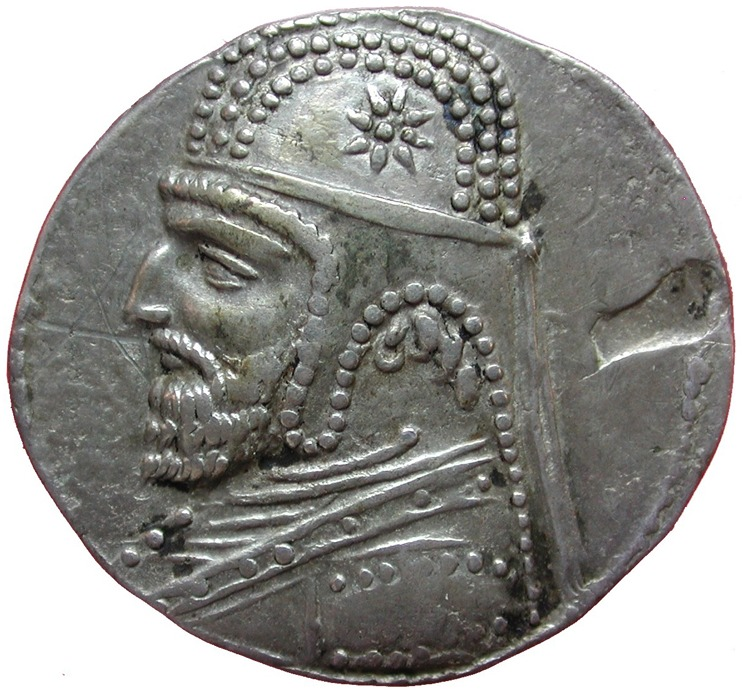 Tetradrachm of the Parthian monarch Orodes I, Seleucia mint. Obverse.